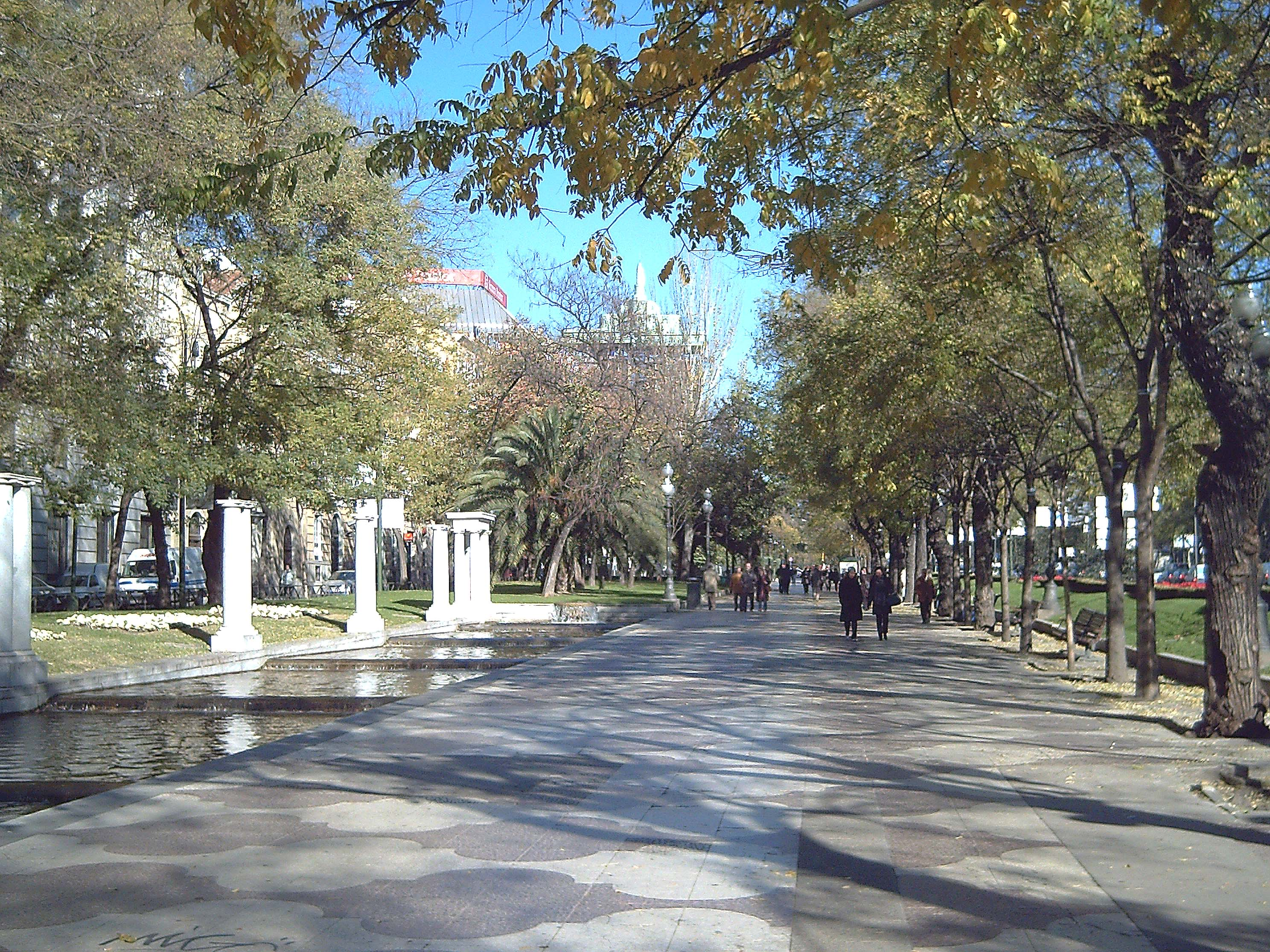 View from Paseo de Recoletos (a boulevard) in Madrid (Spain).